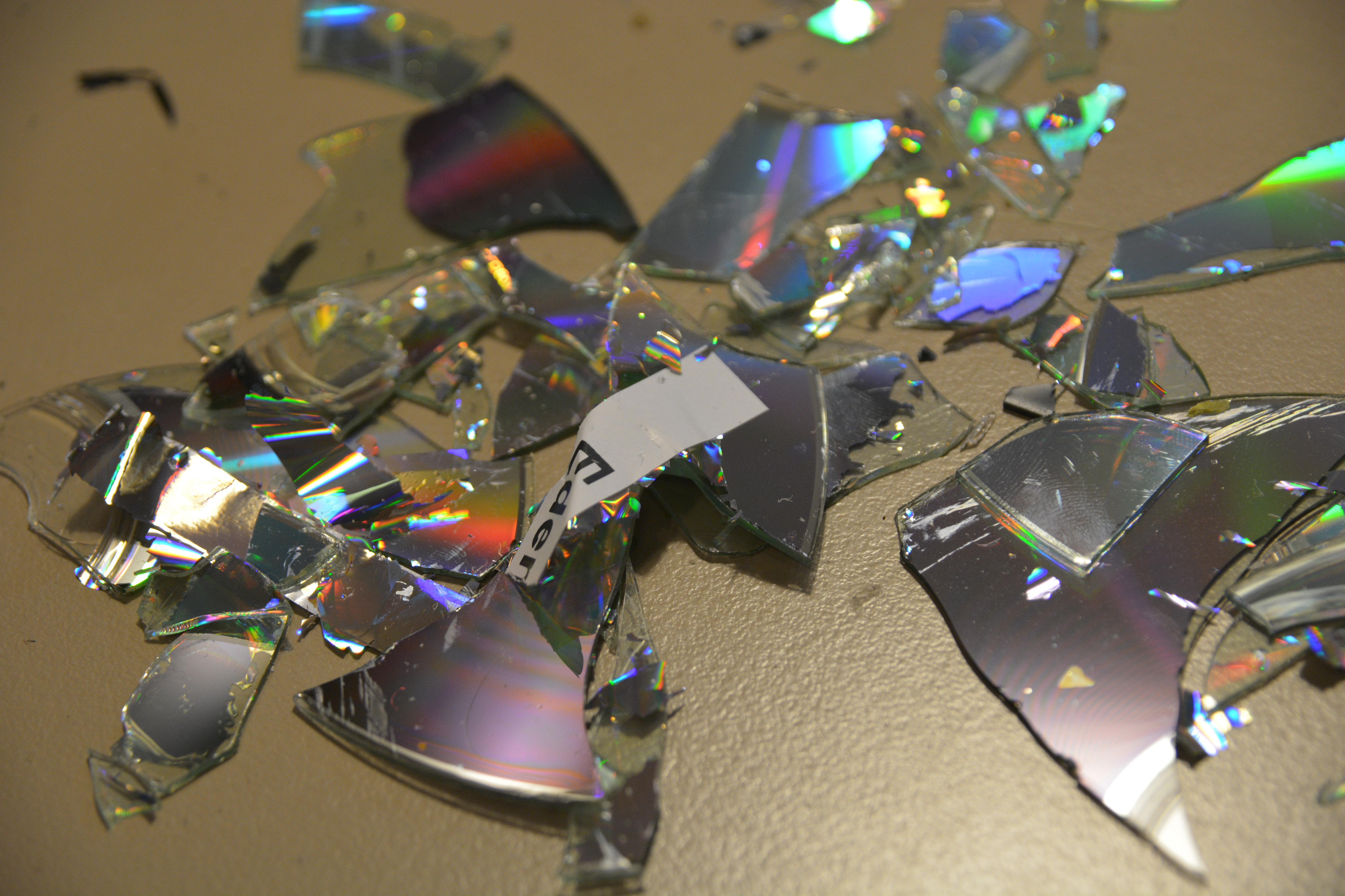 CD disc, which exploded in an optical disc drive.